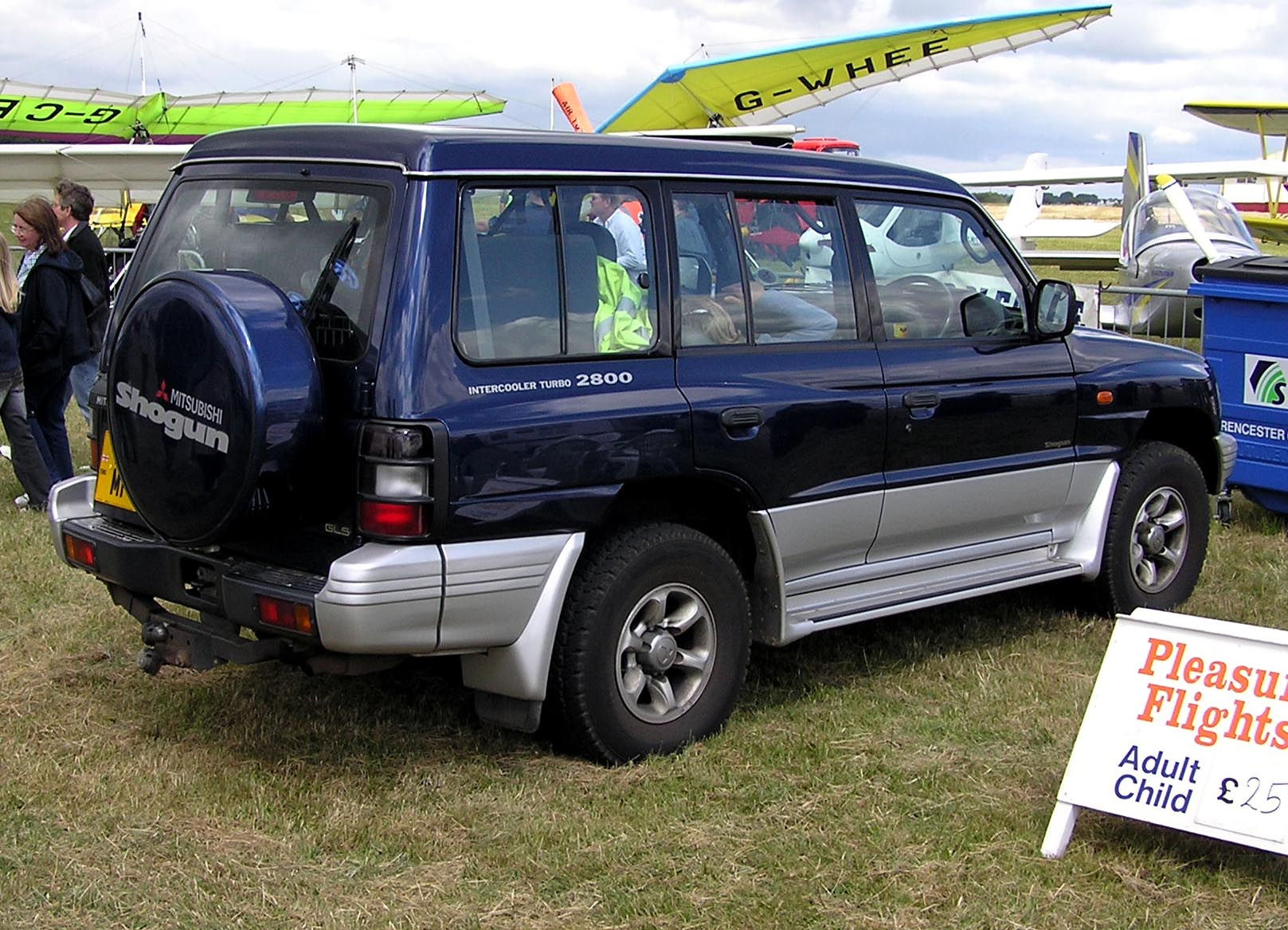 Mitsubishi Shogun 2800 at Kemble Air Show, Kemble, Gloucestershire, England.